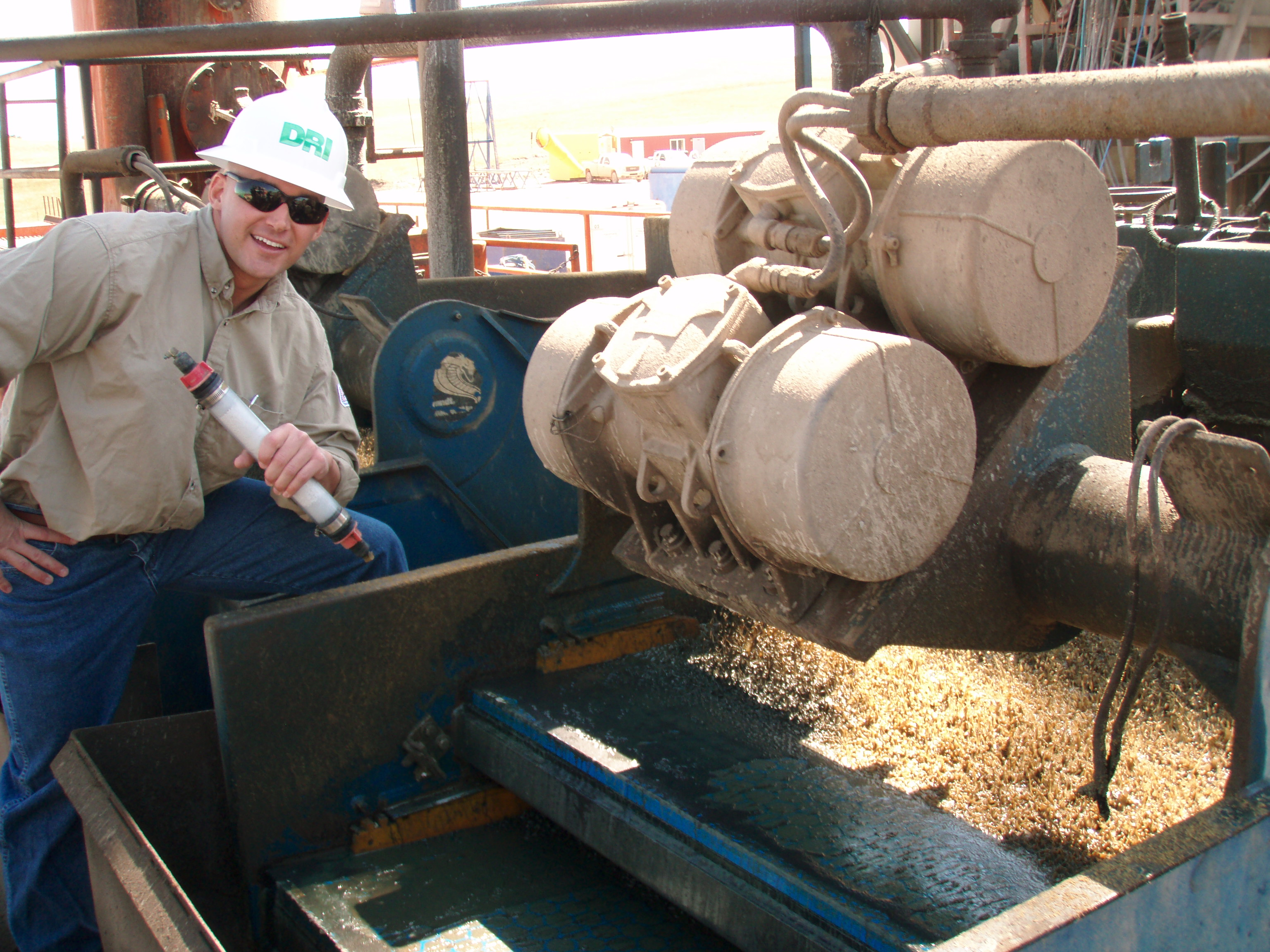 Where collections are gathered from rock coming to the surface that was cut by the drill bit thousands of feet below. It is here where the muddlogger gathers his samples for future is anaylzed to determine what rock they have encountered